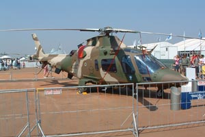 Agusta A109 at Aero Africa 2004 (Pretoria)